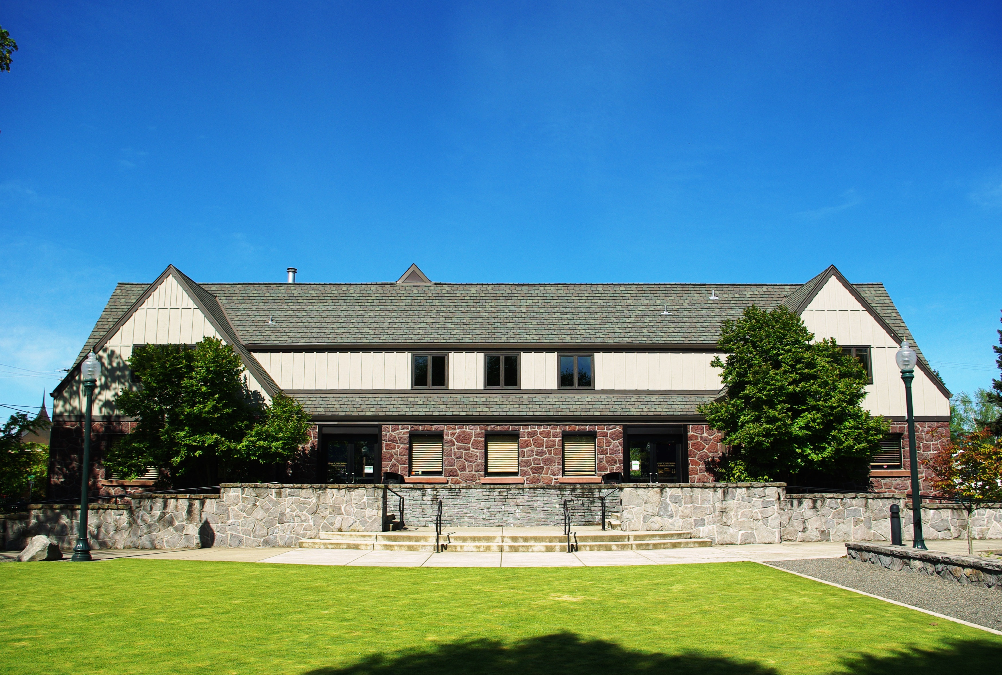 Glenn & Viola Walters Cultural Arts Center in Hillsboro, Oregon. East side with ampitheater lawn.